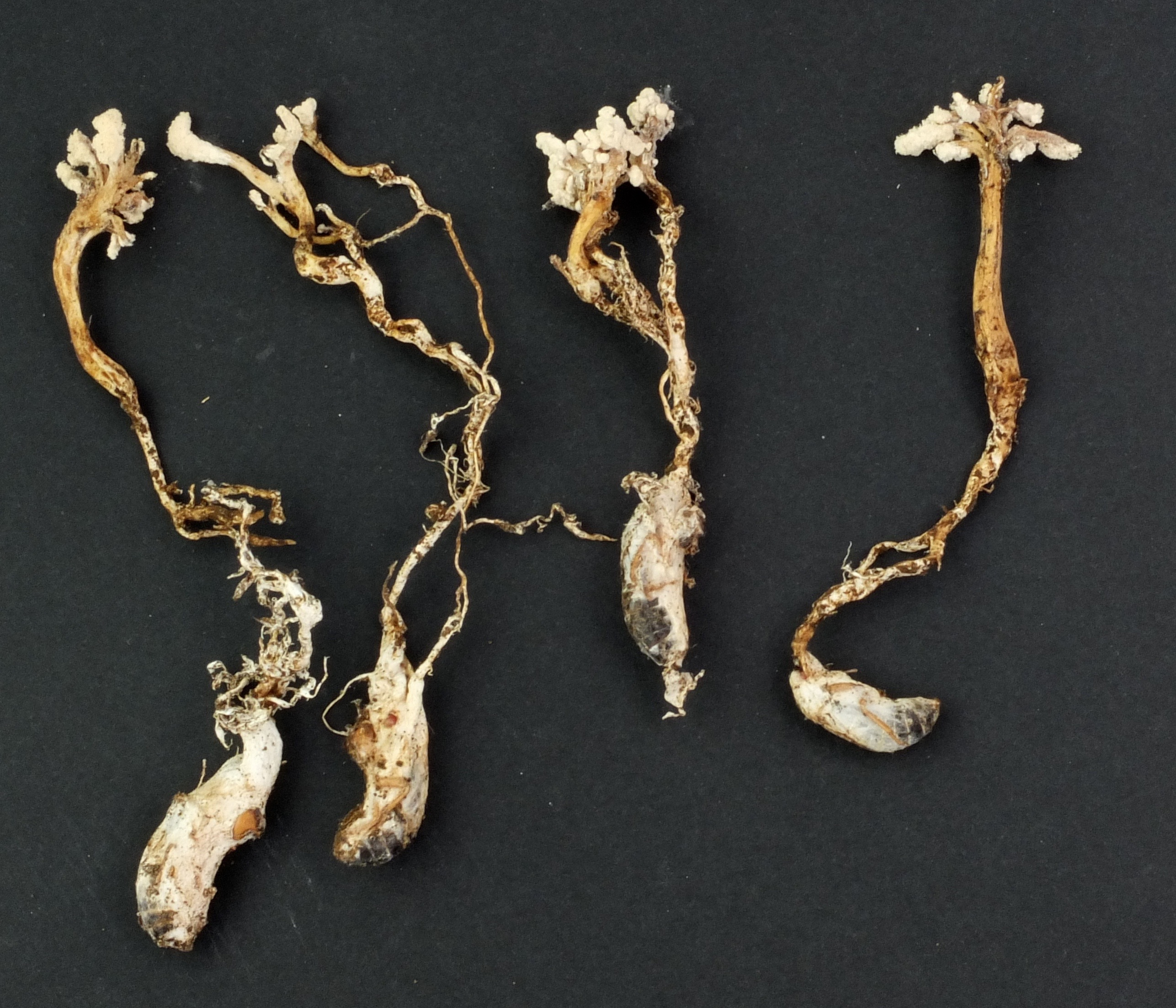 Four excavated Isaria sinclairii from Bushy Park, New Zealand, showing the parasitised cicada nymphs from which the fruiting bodies arise.